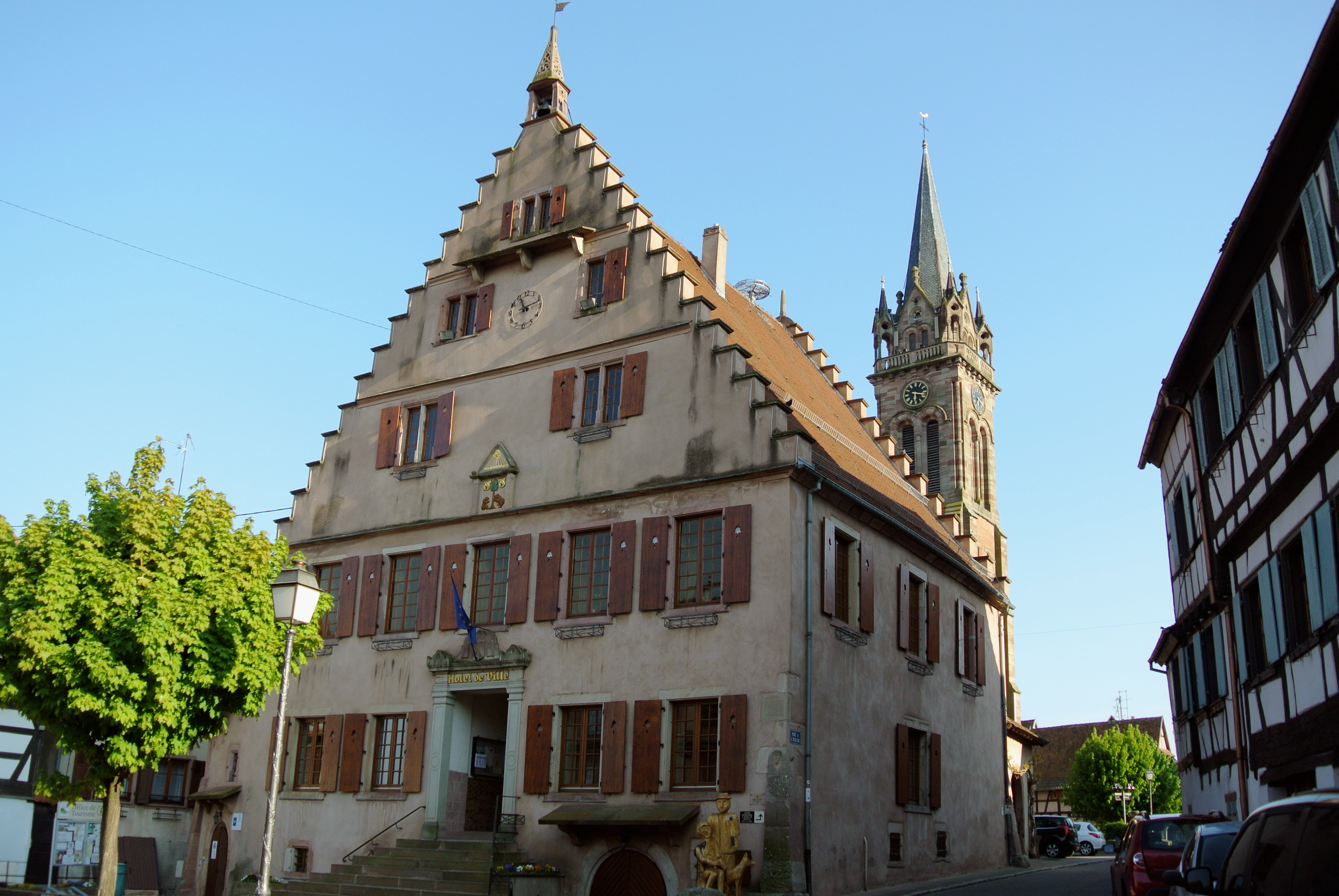 Town hall of Dambach-la-Ville, northern facade.